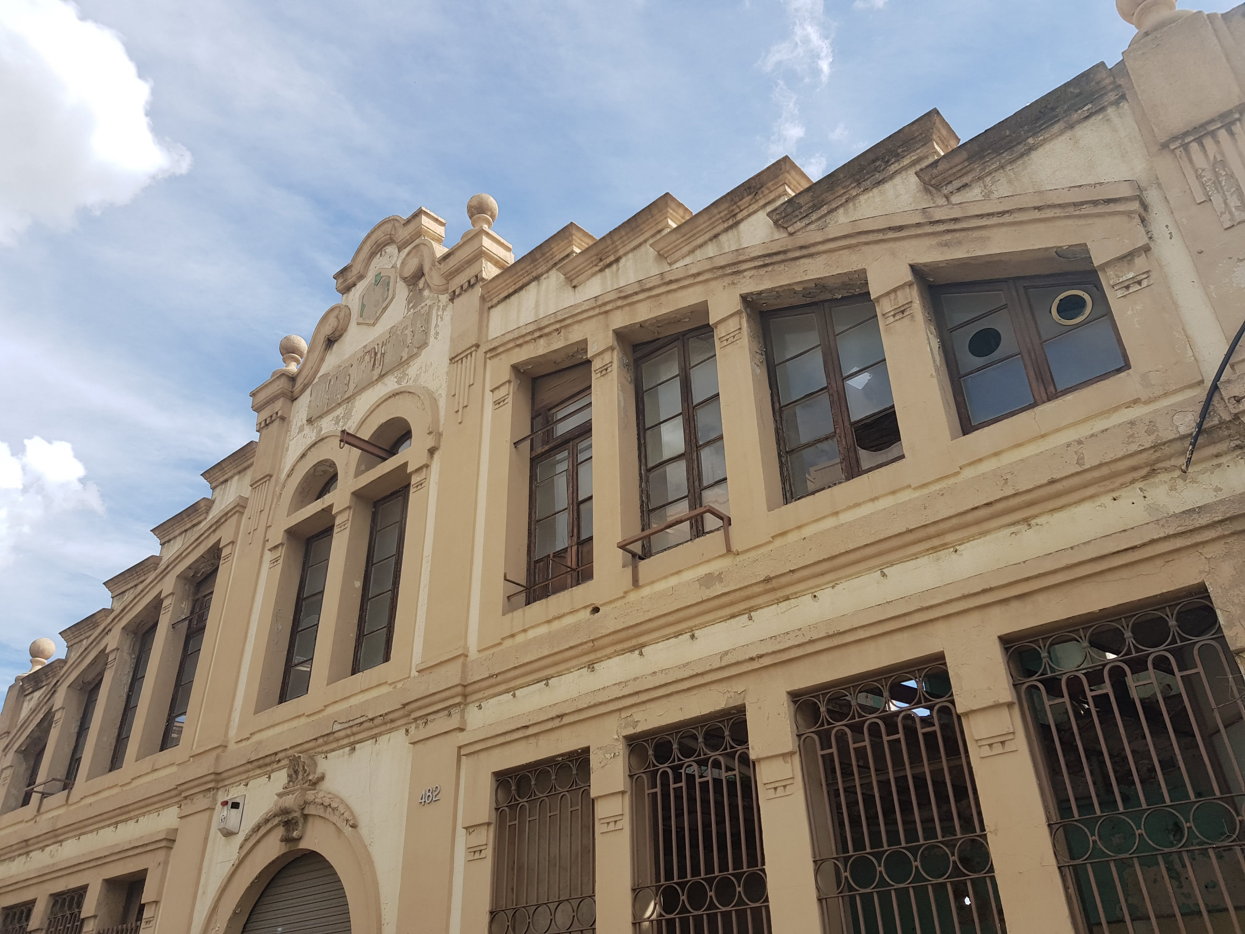 The facade of the Colores Hispania factory in Poblenou, Barcelona, built by Josep Graner i Prat for Emilio Heydrich in 1923